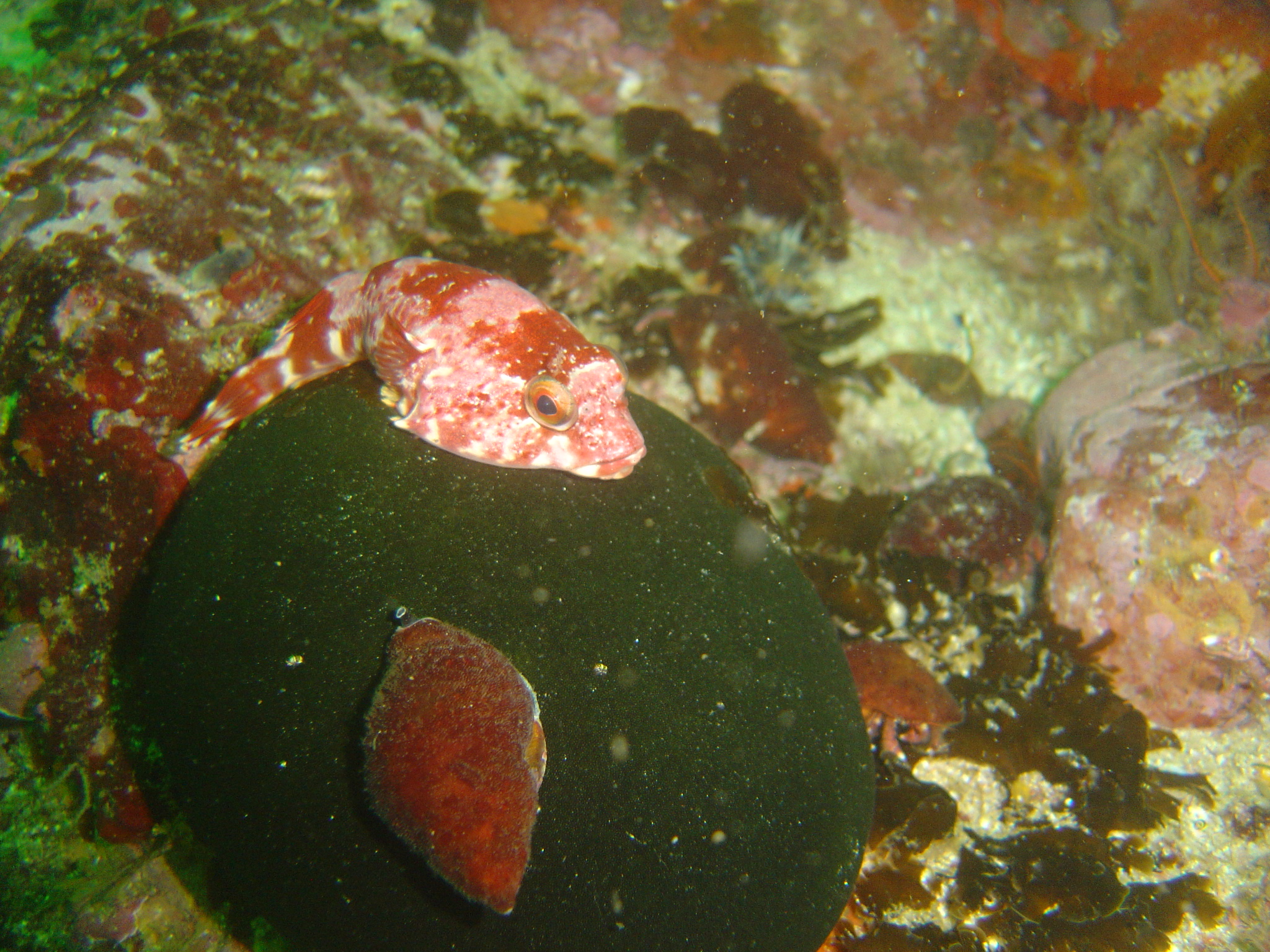 Rocksucker at Blousteen ridge, Rooi-els.